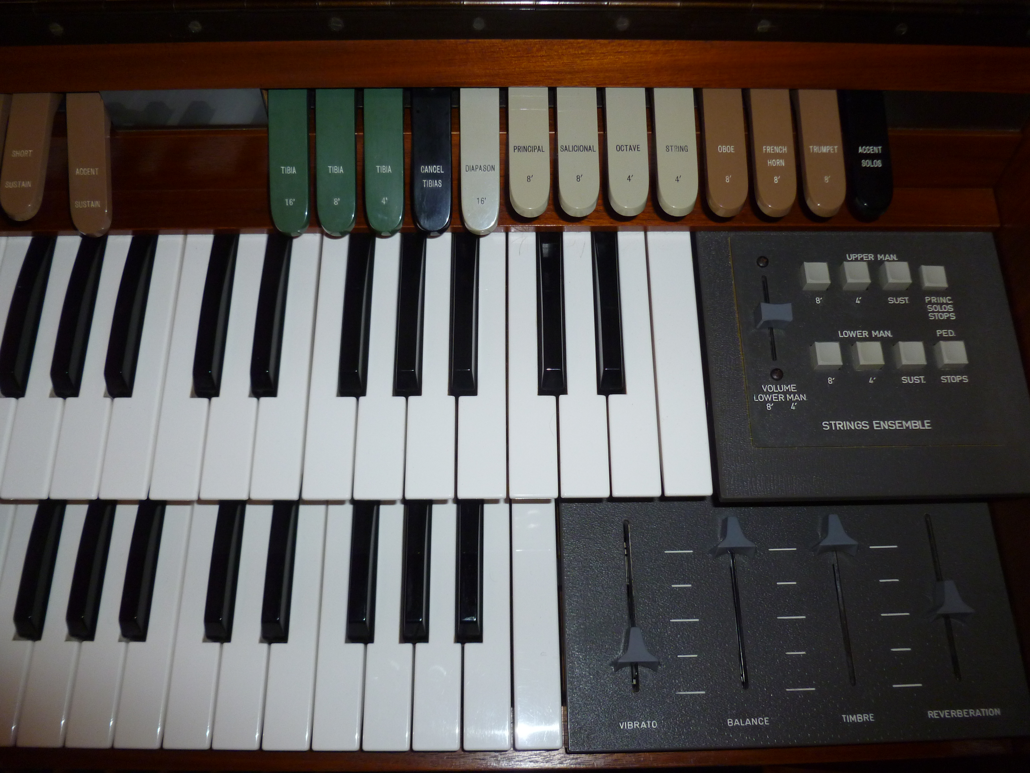 Right panels and manuals of the dutch 1970s and 1980s Eminent 310 Unique electrical synthesizer organ.